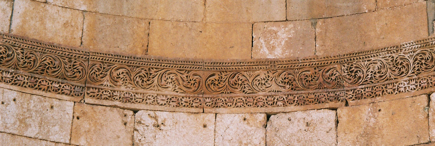 Internal carving St Simon Stylites Church of Saint Simeon Stylites